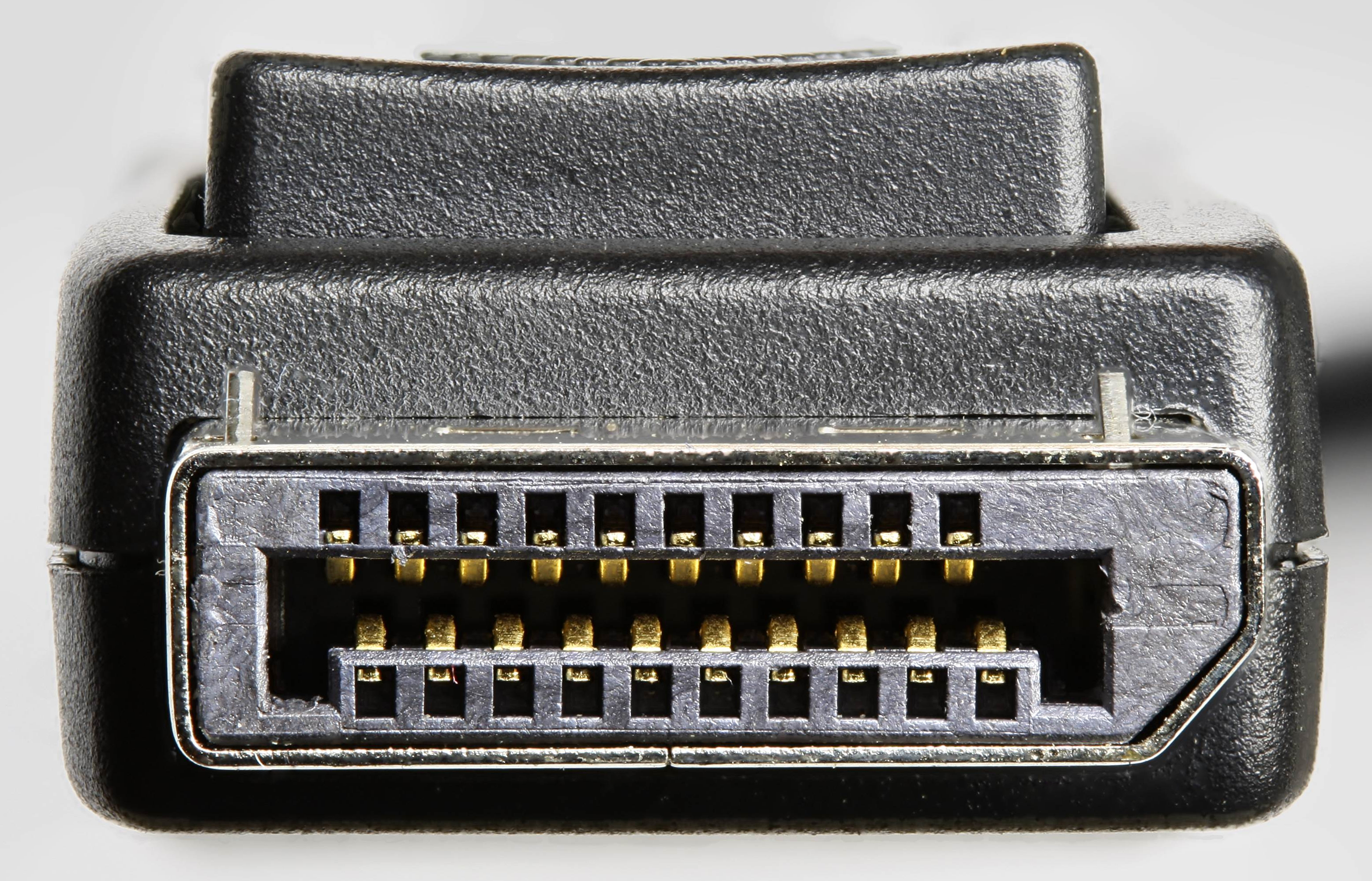 The front side of a male DisplayPort connector